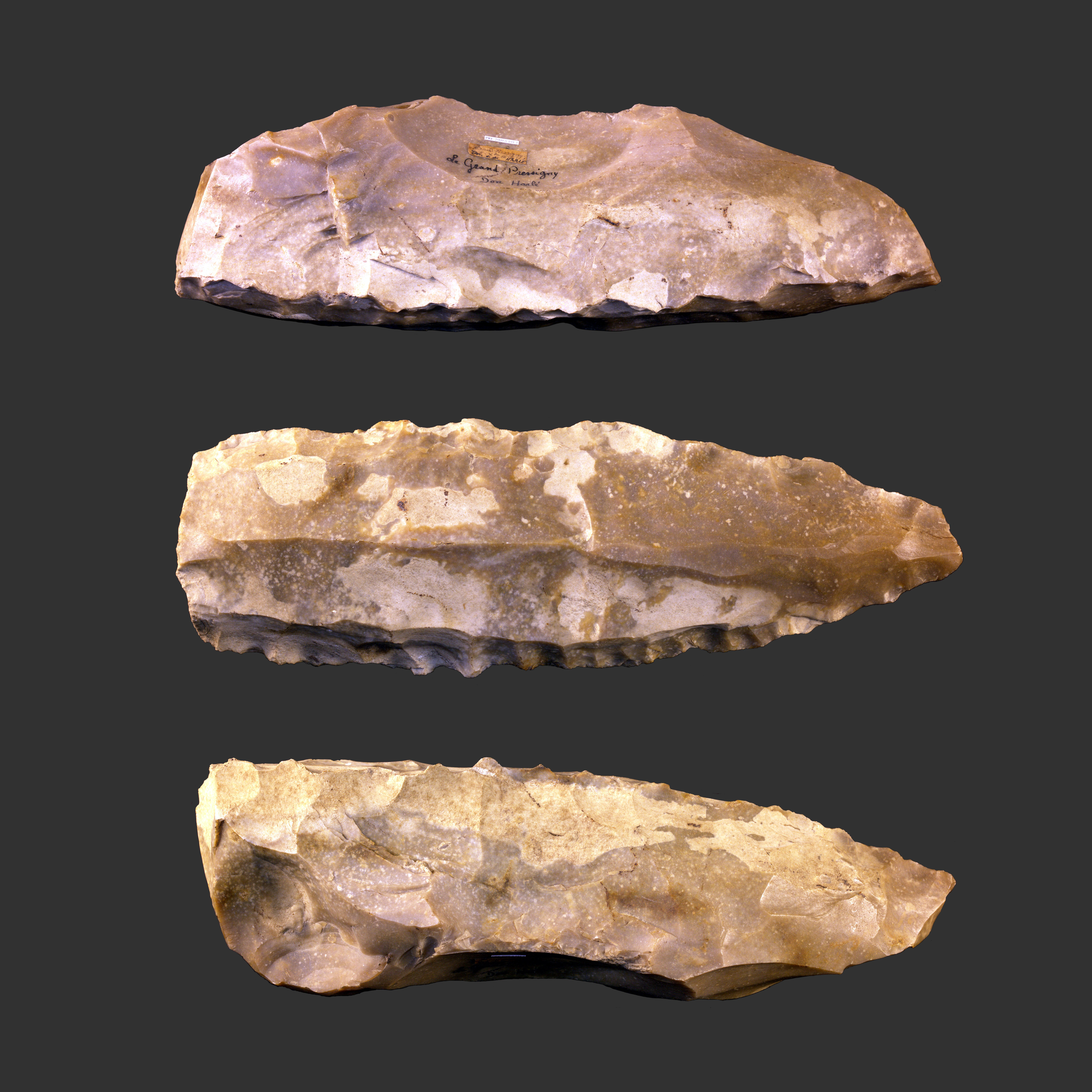 Lithic core for “en livre de beurre” Pressignan Lithic reduction Different views of the same specimen.